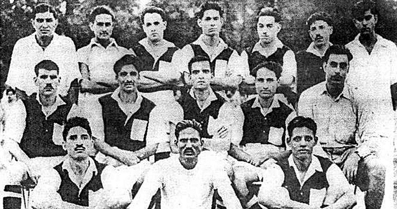 The 1940 League winning Mohammedan Sporting team. From left: (Standing) Safi, Shah-Jahan, Noor Mohammad, Taher, Taj Mohammad, Bashir. (Sitting, middle row) Bacchi Khan, Hafeez Rashid, Masum, Saboo, Jumma Khan. (Sitting, lower row) Rashid Khan, Kalu Khan, Sirajuddin.